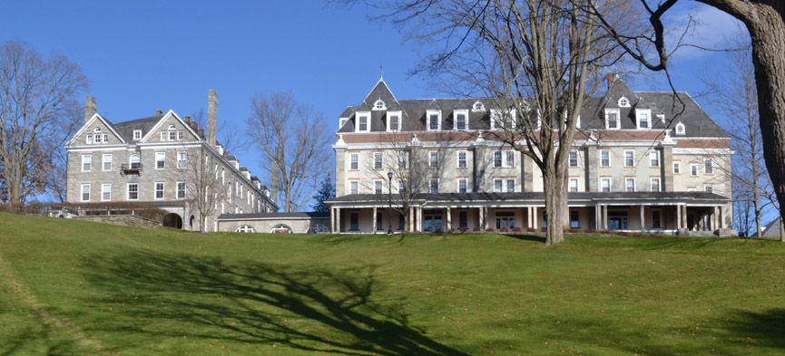 Welcome to Blair Academy!